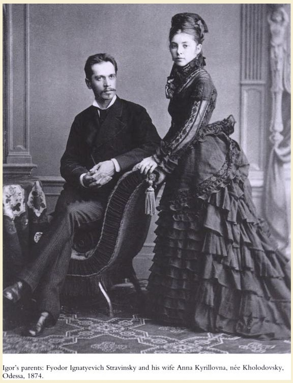 Fyodor Stravinsky and his wife Anna, Odessa, 1874